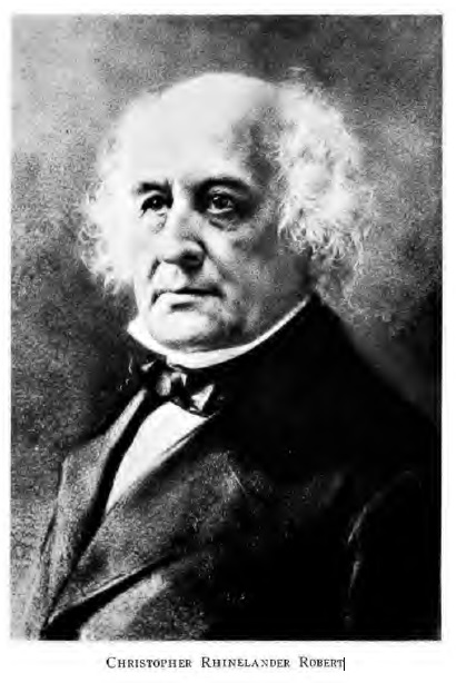 Christopher Rhinelander Robert, funded the early days of Robert College Istanbul